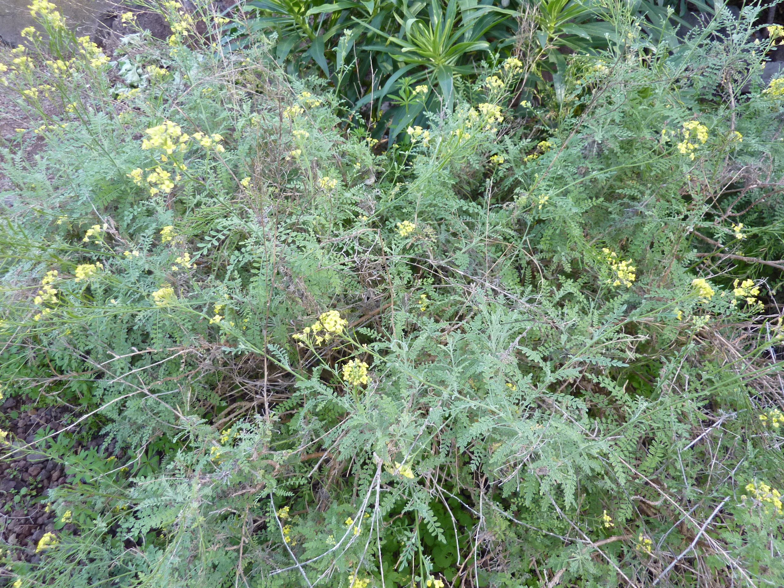 Descuraina artemisioides growing in the Jardín Botánico Canario Viera y Clavijo.